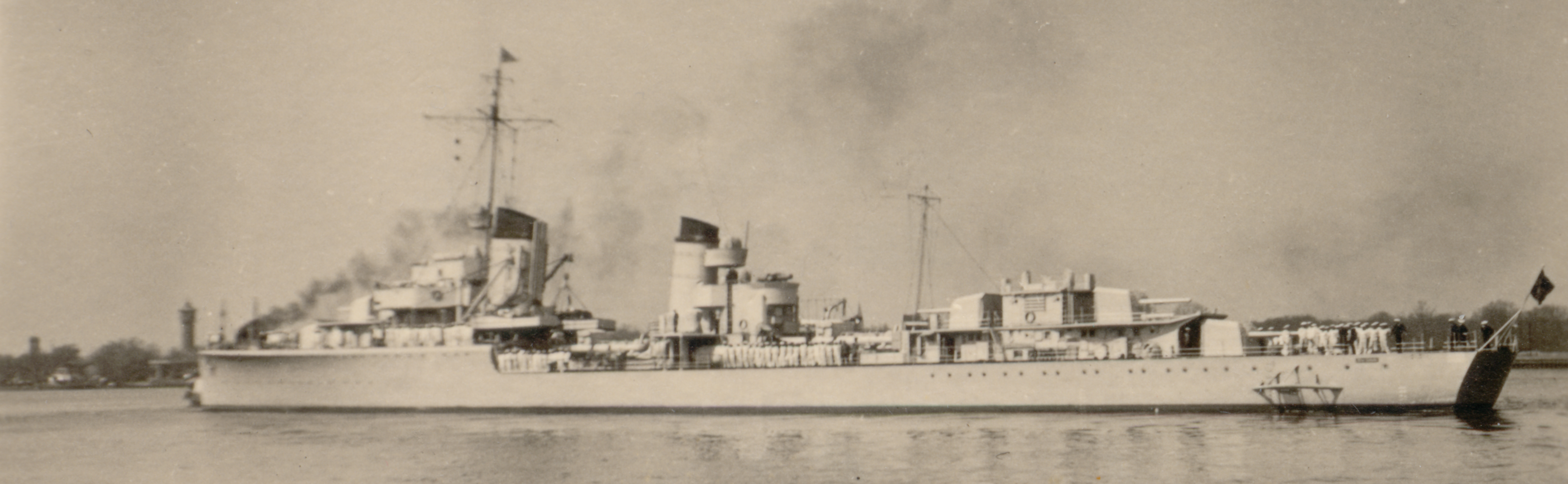 Destroyer of class Zerstörer 1934 Z 3 Max Schultz.